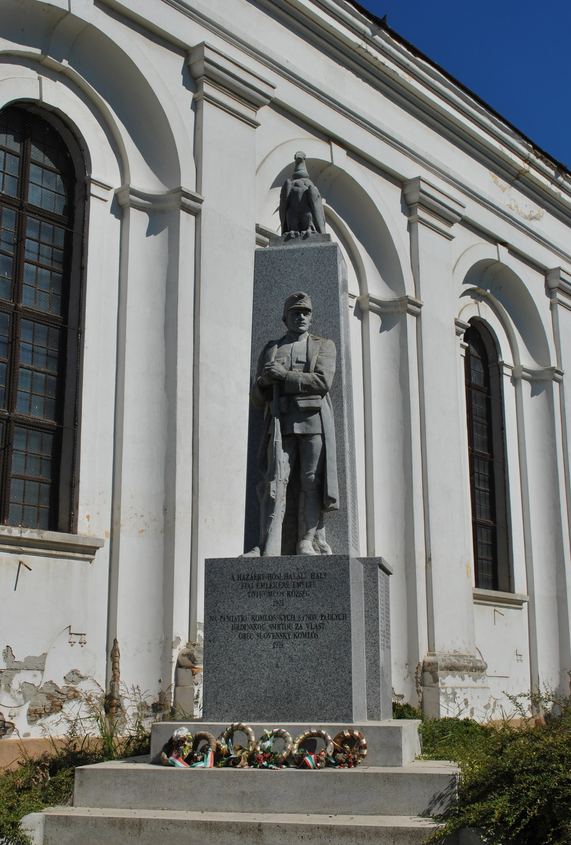 Tótkomlós, Hungary - memorial of the soldiers of the World War I